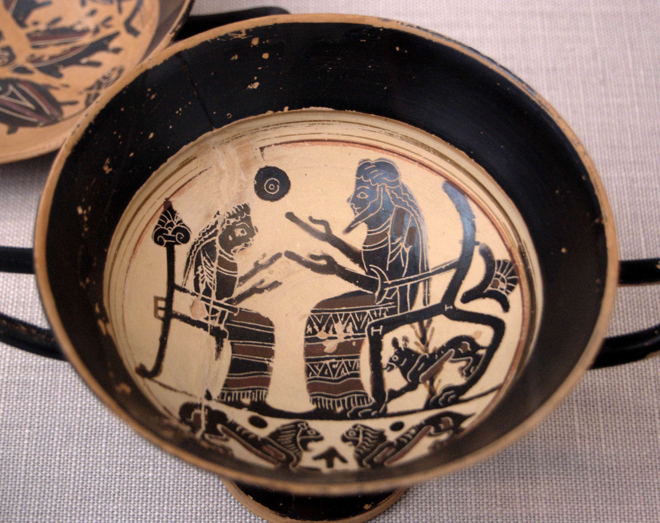 Couple. Laconian black-figure kylix, 590–550 BC.